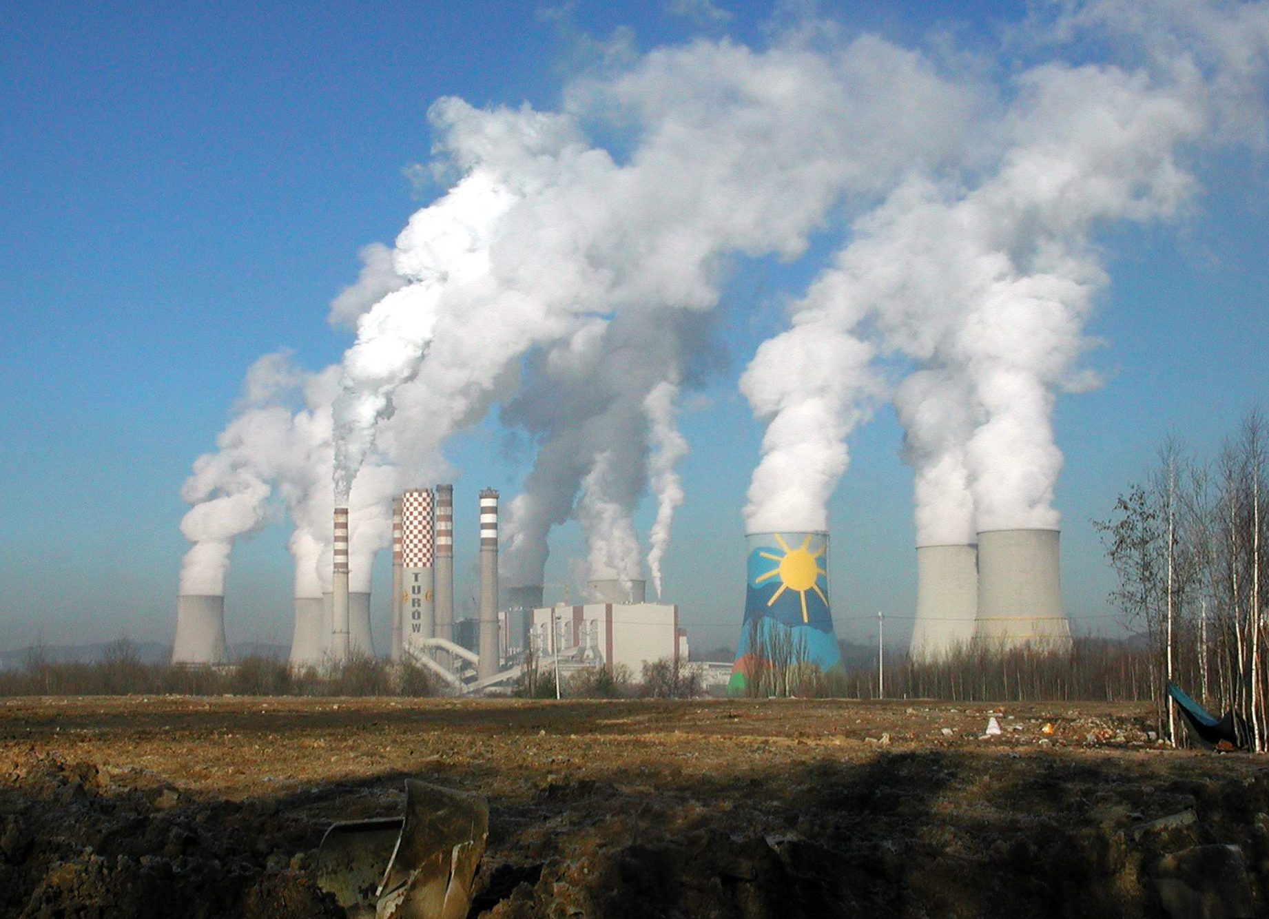 Turów power station, view from the adjacent forest